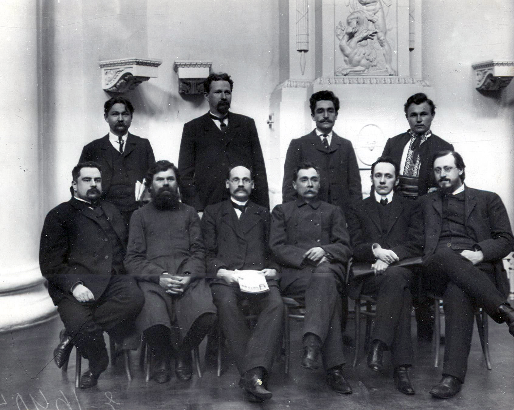 The members of the second Russian State Duma from Chernigov Governorate, 1907.